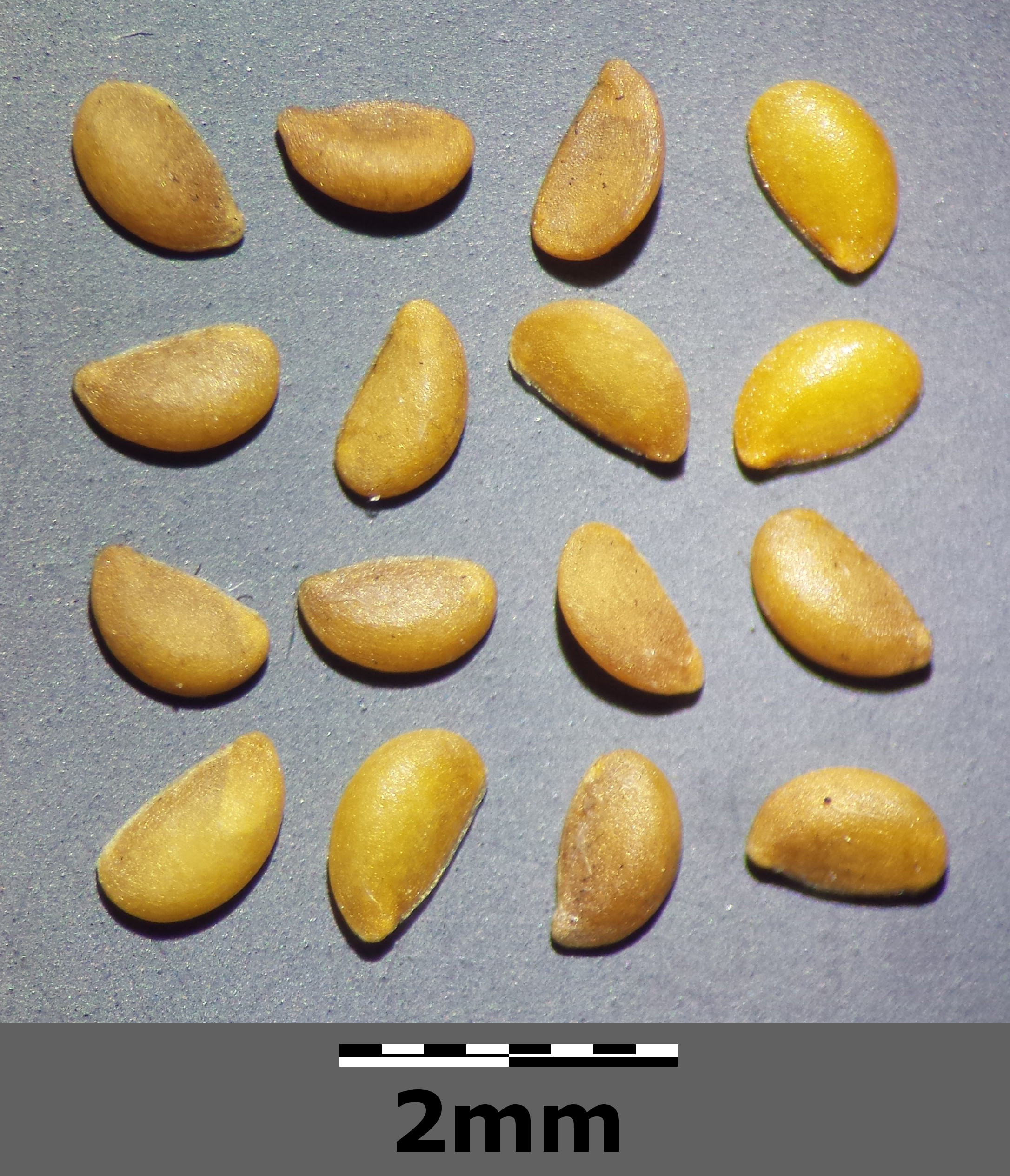 Seeds Taxon: Linum catharticum (sensu Fischer et al. EfÖLS 2008 ISBN 978-3-85474-187-9) Location: Stetter Berg, district Korneuburg, Lower Austria - ca. 250 m a.s.l. Habitat: semi-dry grassland